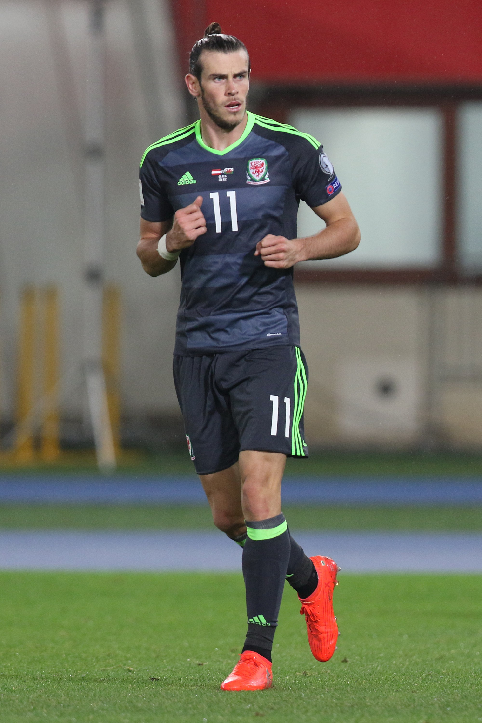 2018 FIFA World Cup qualification – UEFA Group D) – Austria (red shirts) vs. Wales (white shirts) 2-2 (1-2) – 2016-10-06 in Vienna, Ernst-Happel-Stadion – The photo shows Gareth Bale.